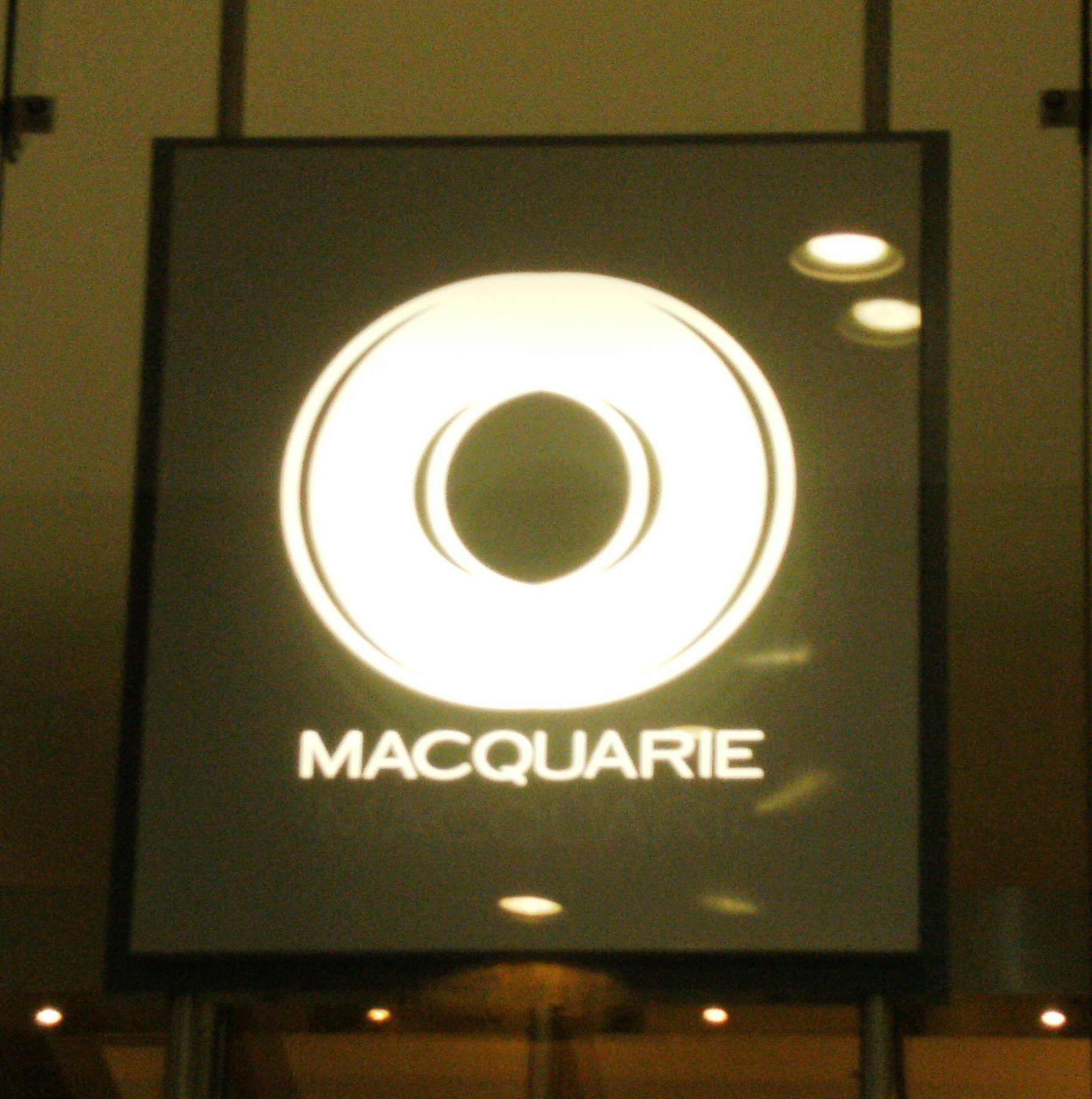 Macquarie Group logo from Martin Place window